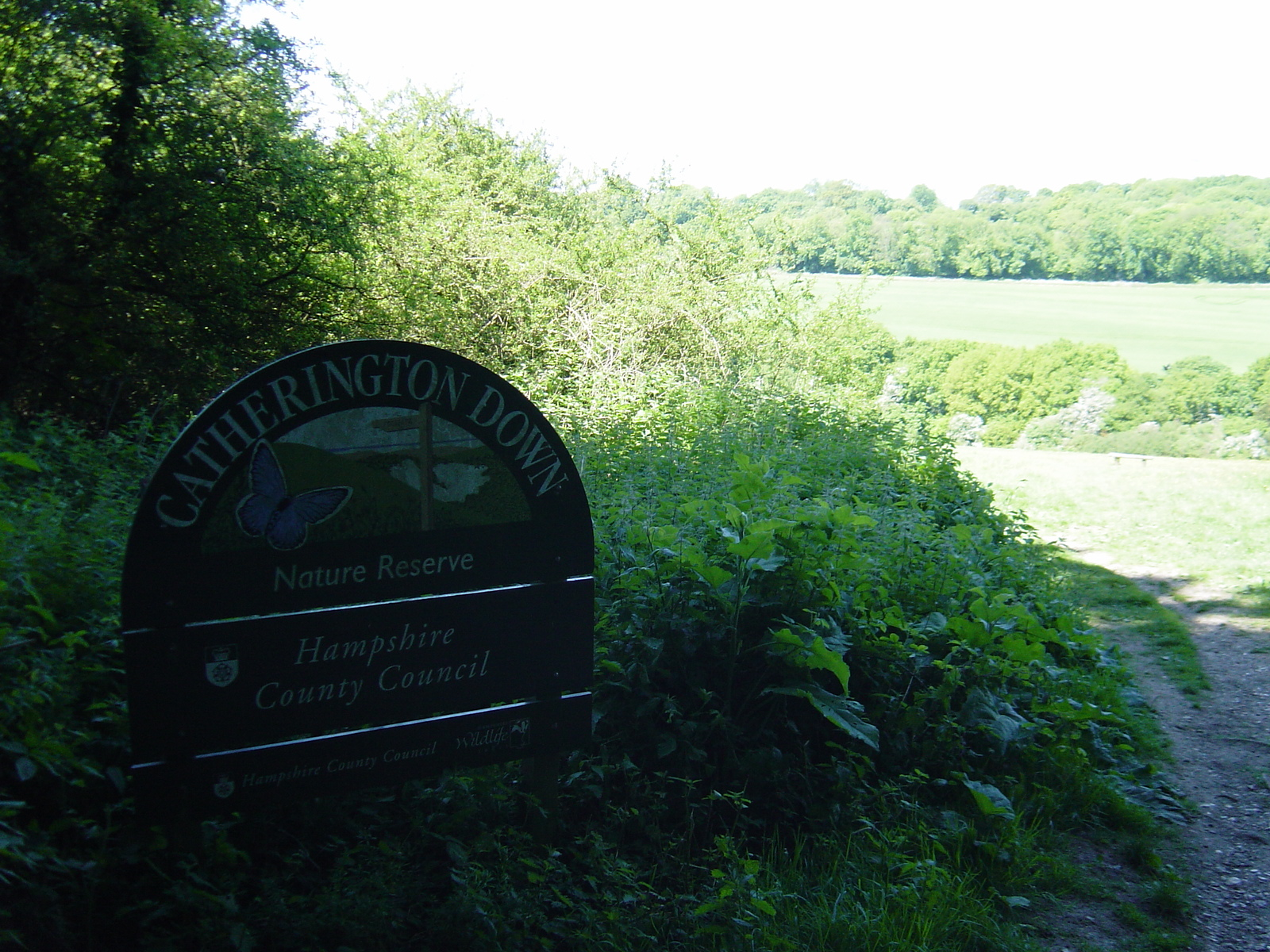 Catherington Down, Hampshire, England